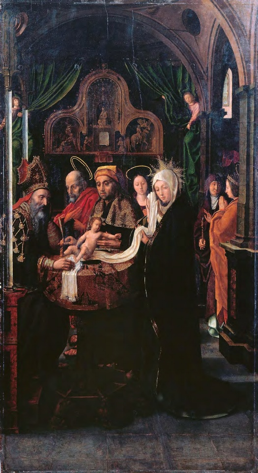 The Circumcision (c. 1506-11), by Grão Vasco, part of the polyptych of the High Chapel of the Lamego Cathedral.